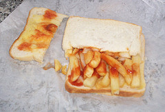 Chip Butty from Decks Seafood Express, Southbank, Brisbane, Queensland, Australia 070126